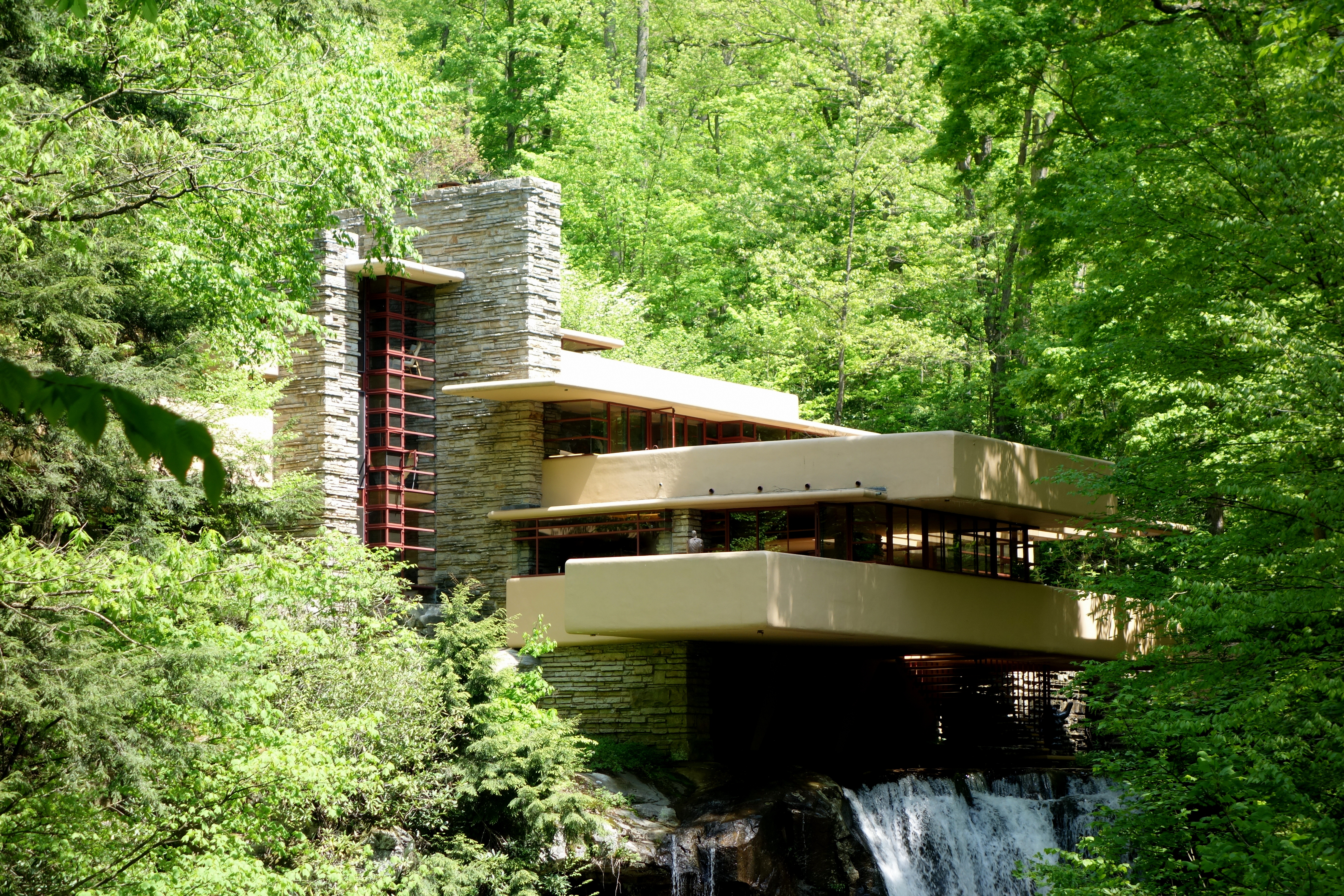 Fallingwater (Kaufmann Residence) by Frank Lloyd Wright. Photography of the exterior was permitted without restriction.